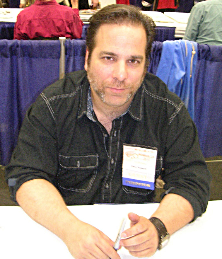 Jimmy Palmiotti, Wonder Con 2010